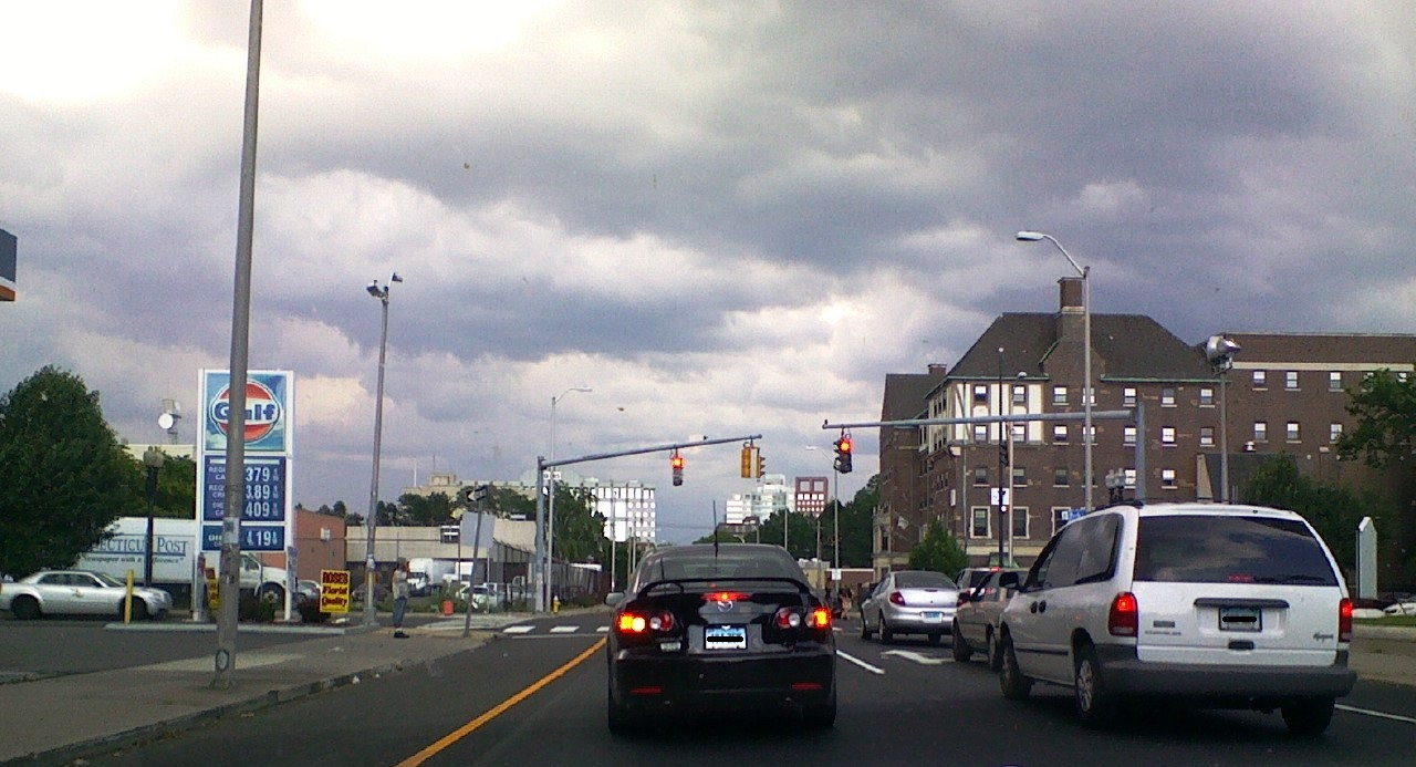 State St & Park Ave looking East towards downtown Bridgeport, CT